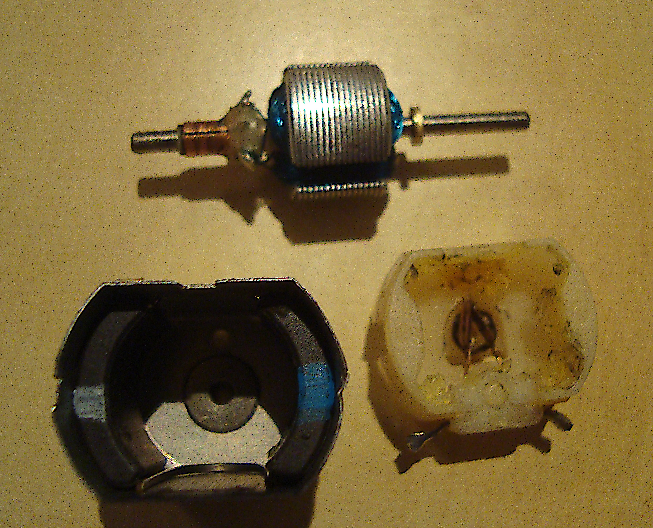 A disassembeled electric DC motor.